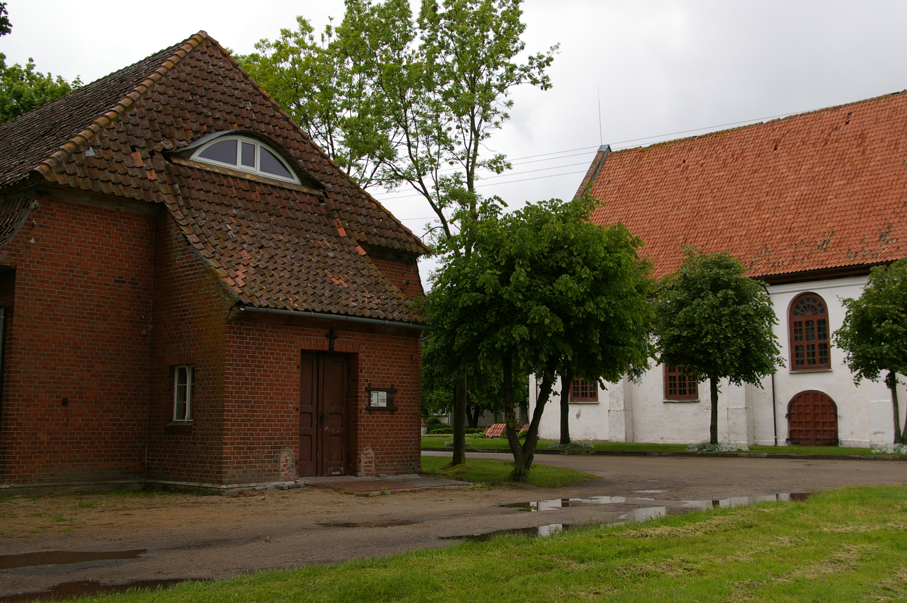 Kintai - Little Lutheran Church (on left) and Old Lutheran Church (on right).